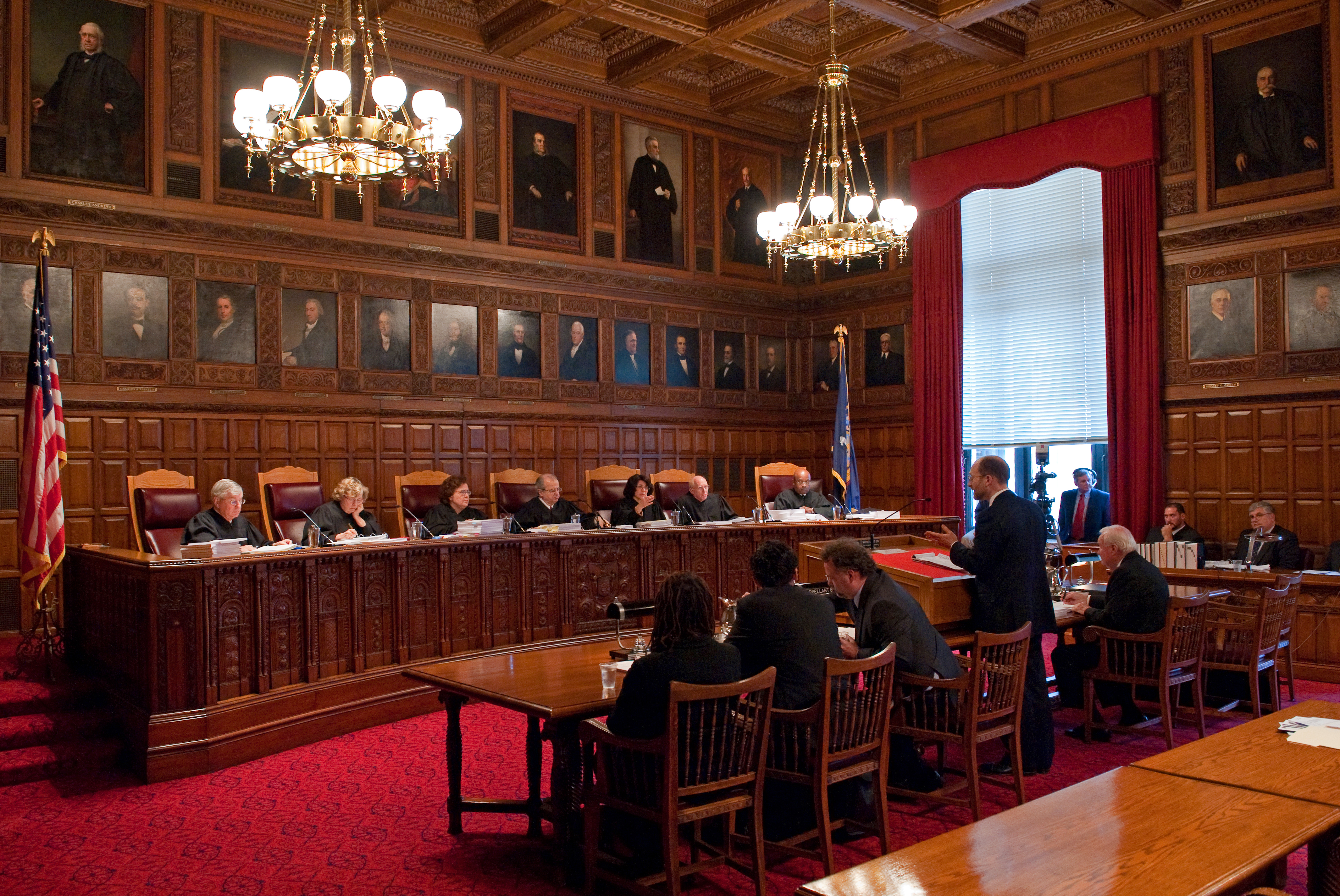 State of New York Court of Appeals Albany, New York October 14, 2009 No. 178 Matter of Goldstein v New York State Urban Development Corporation "This proceeding challenges the use of eminent domain by the Empire State Development Corporation (ESDC) to take property on the site of the proposed Atlantic Yards project in downtown Brooklyn for development for Forest City Ratner Companies."